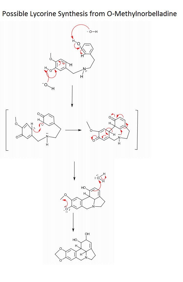 This is a possible Lycorine synthesis from O-Methylnorbelladine found in the species Amaryllidaceae